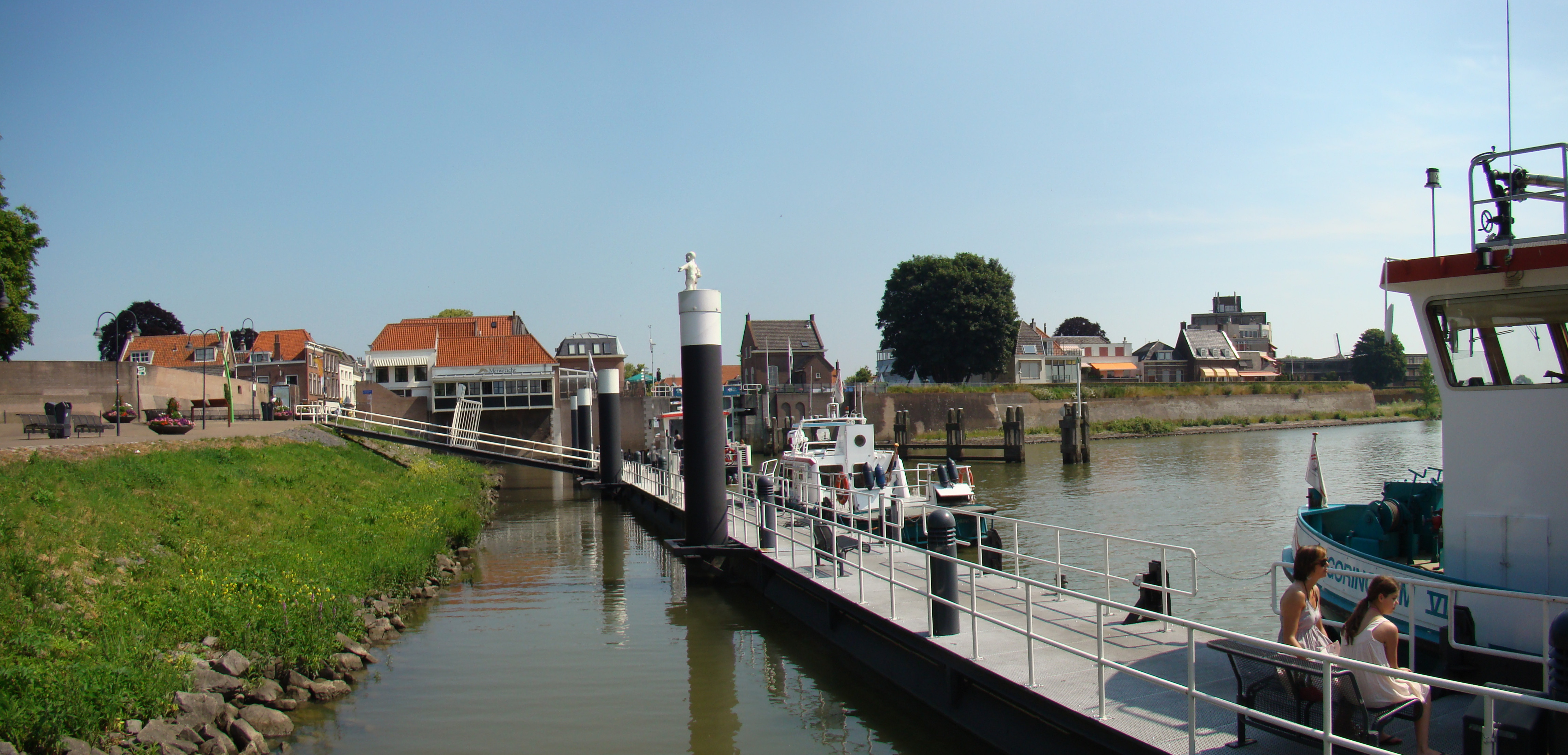 Impressions of Gorinchem, Netherlands